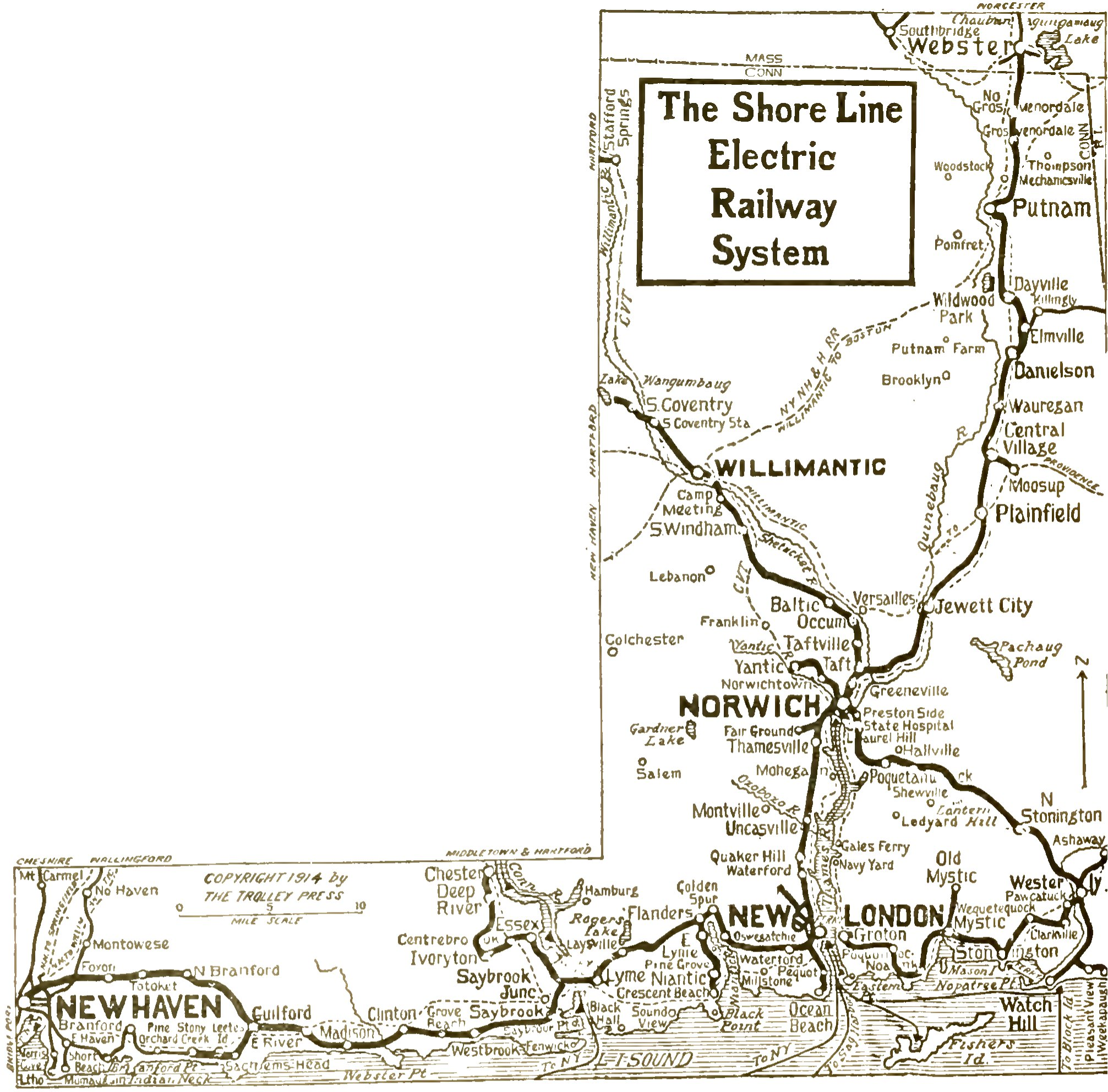 Map of the Shore Line Electric Railway, dating from 1916. The map shows the Norwich & Westerly, Groton & Stonington, New London & East Lyme and Pawtucket Valley lines, as well as the Shore Line.